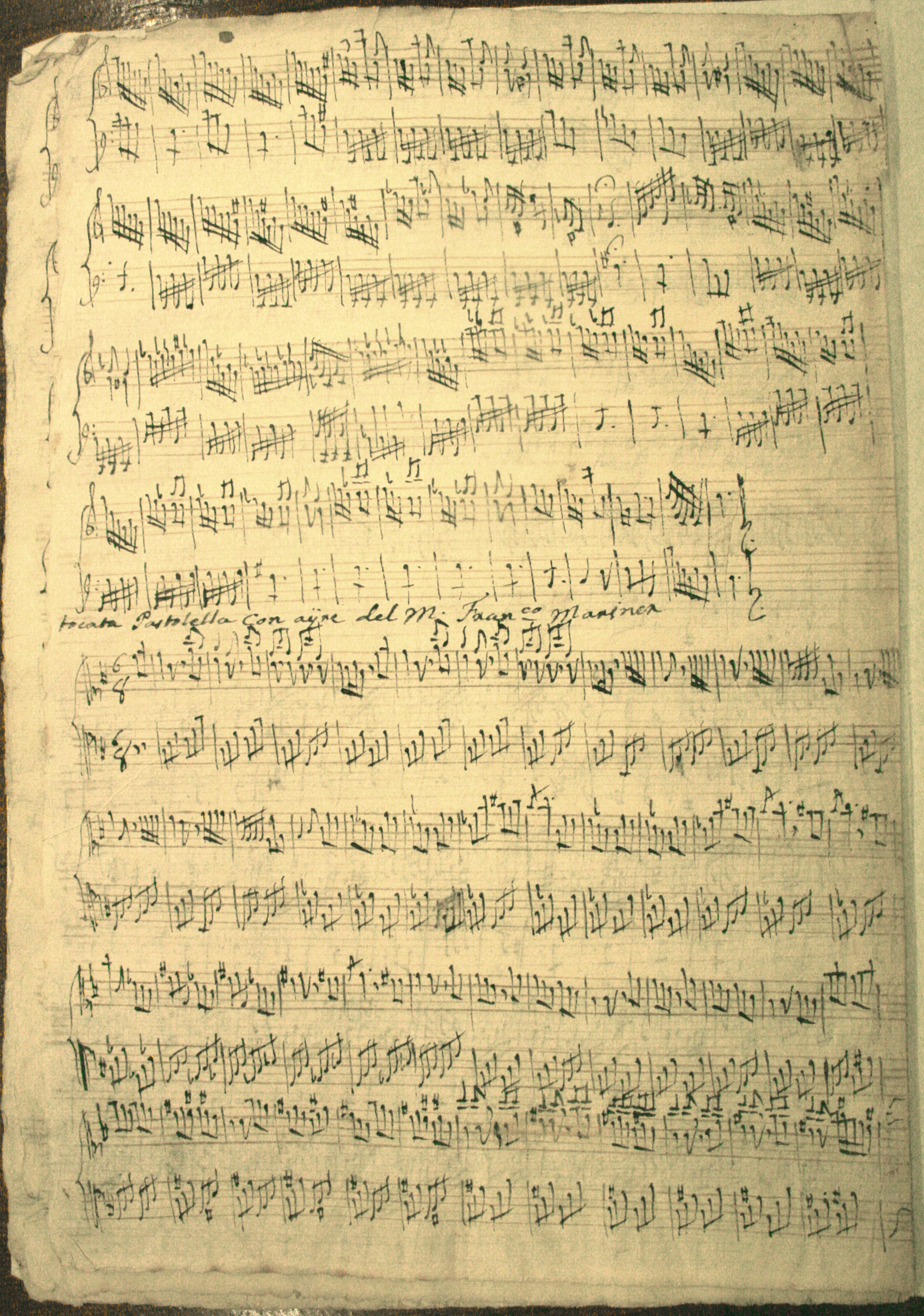 Incipit of a work, a toccata pastorale, by the Spanish organist and composer Francesc Mariner (Barcelona, 1720-1789). Manuscript by a contemporary of the author.